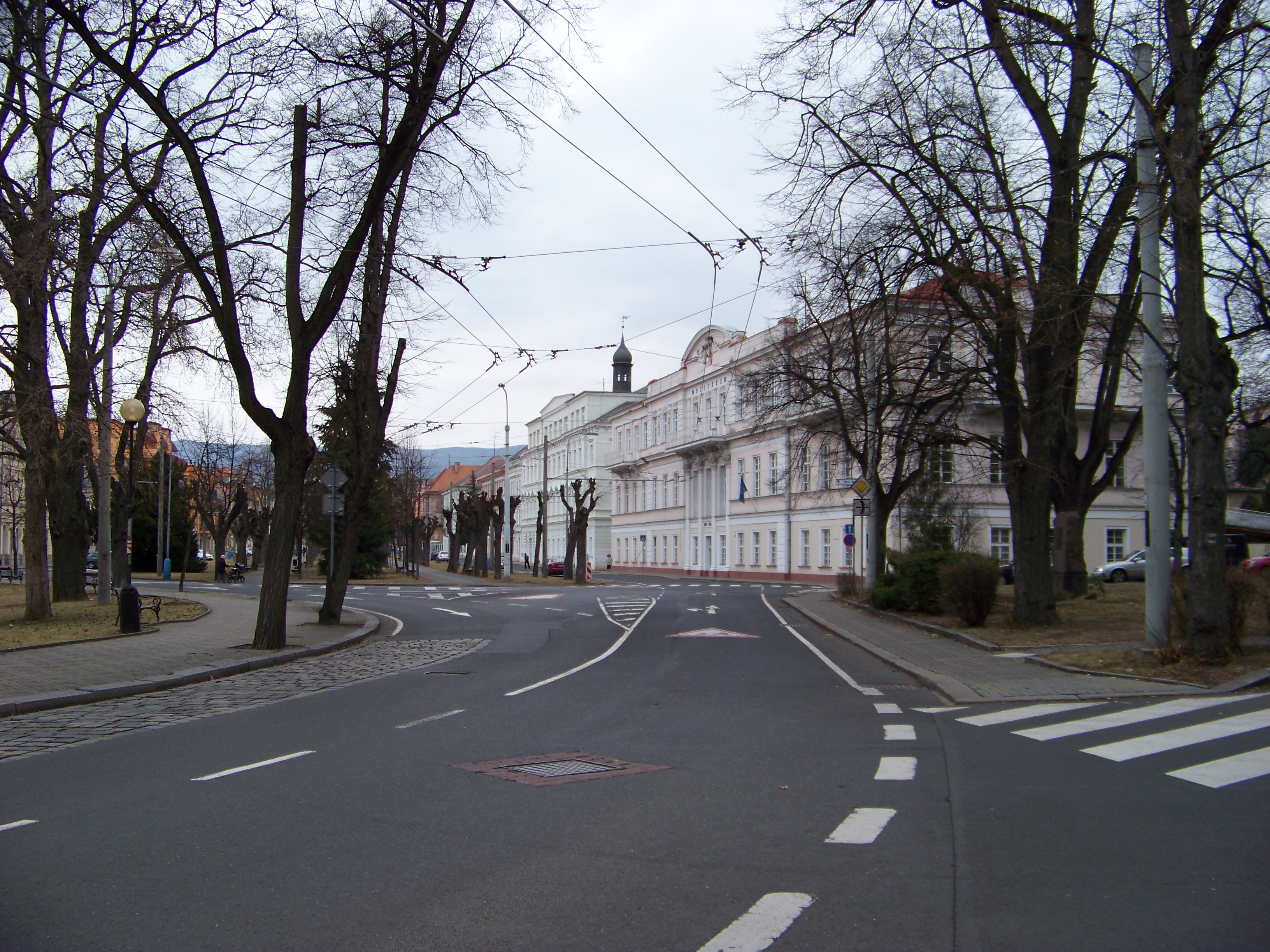 Teplice, Teplice District, Ústí nad Labem Region, the Czech Republic. Šanov, U Nových lázní street, the New Spa. - OpenStreetMap(Info)